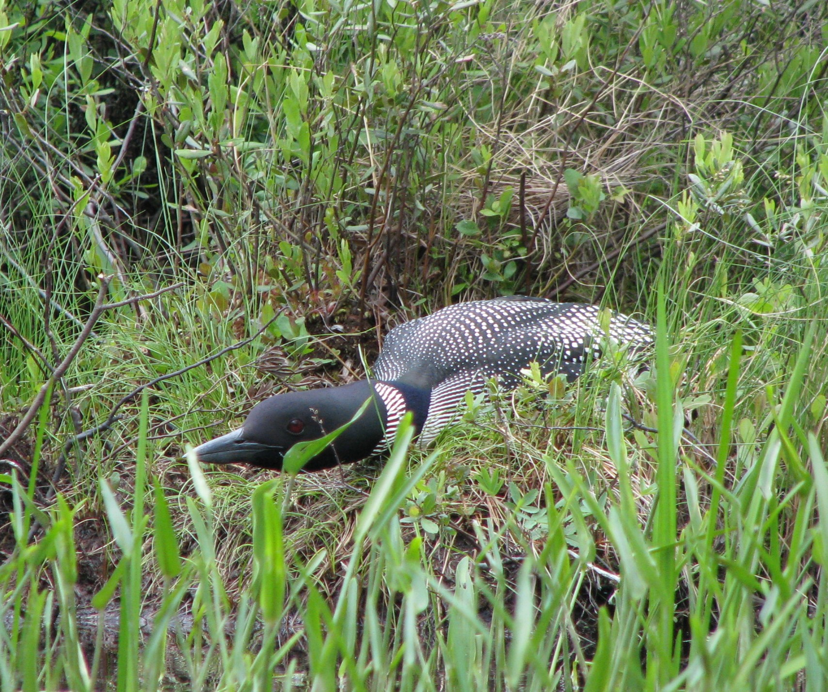 A Great Northern Loon (also known as Great Northern Diver and Common Loon) by Osgood Pond, New York, USA.